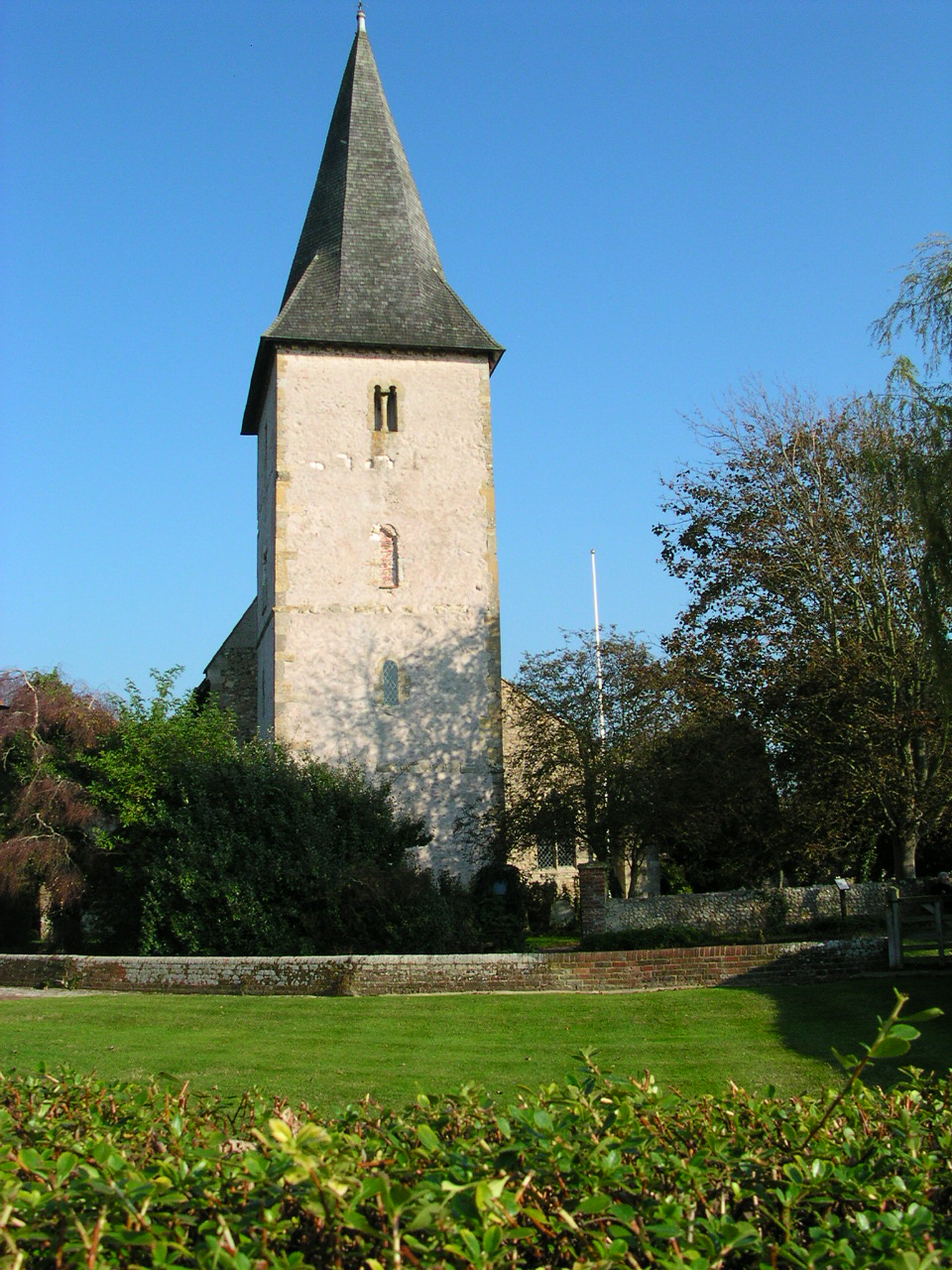 Taken at Bosham October 2007